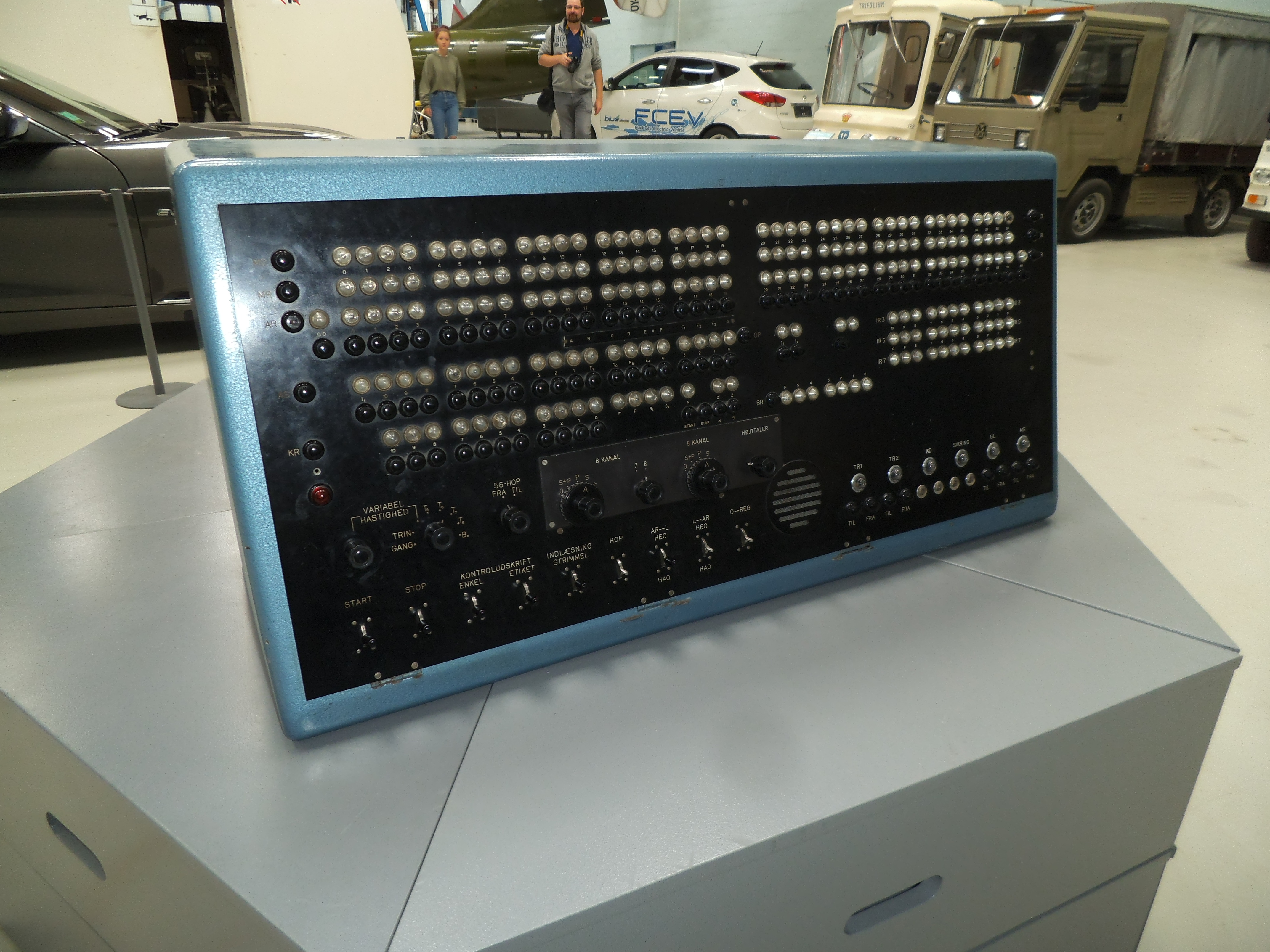 Console from the DASK computer, exhibit in Teknisk Museum in Elsinore